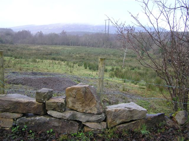 Lattone Townland Looking WNW